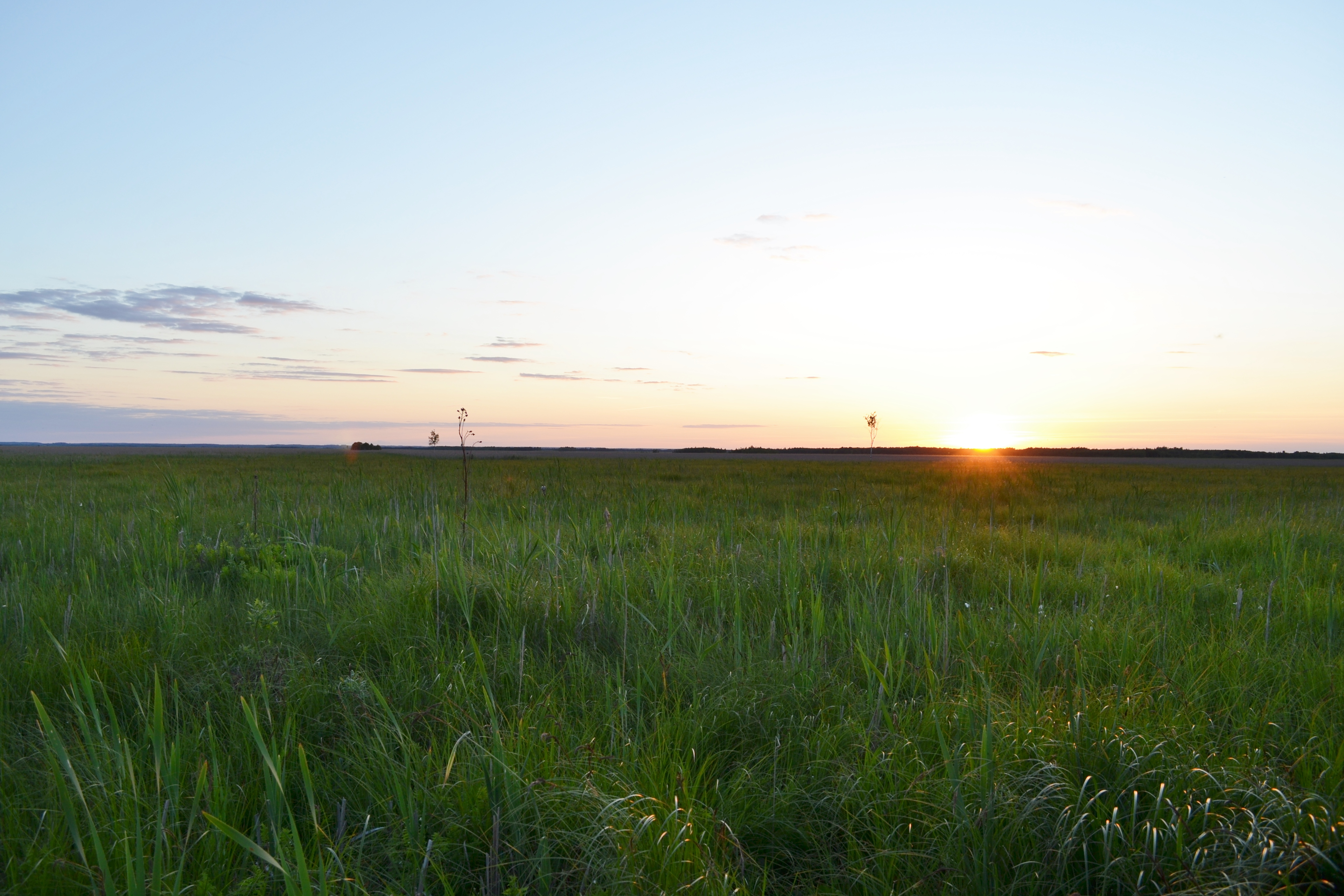 Breeding habitat of the aquatic warbler (Acrocephalus paludicola) Długa Luka, Biebrza Valley, NE-Poland.